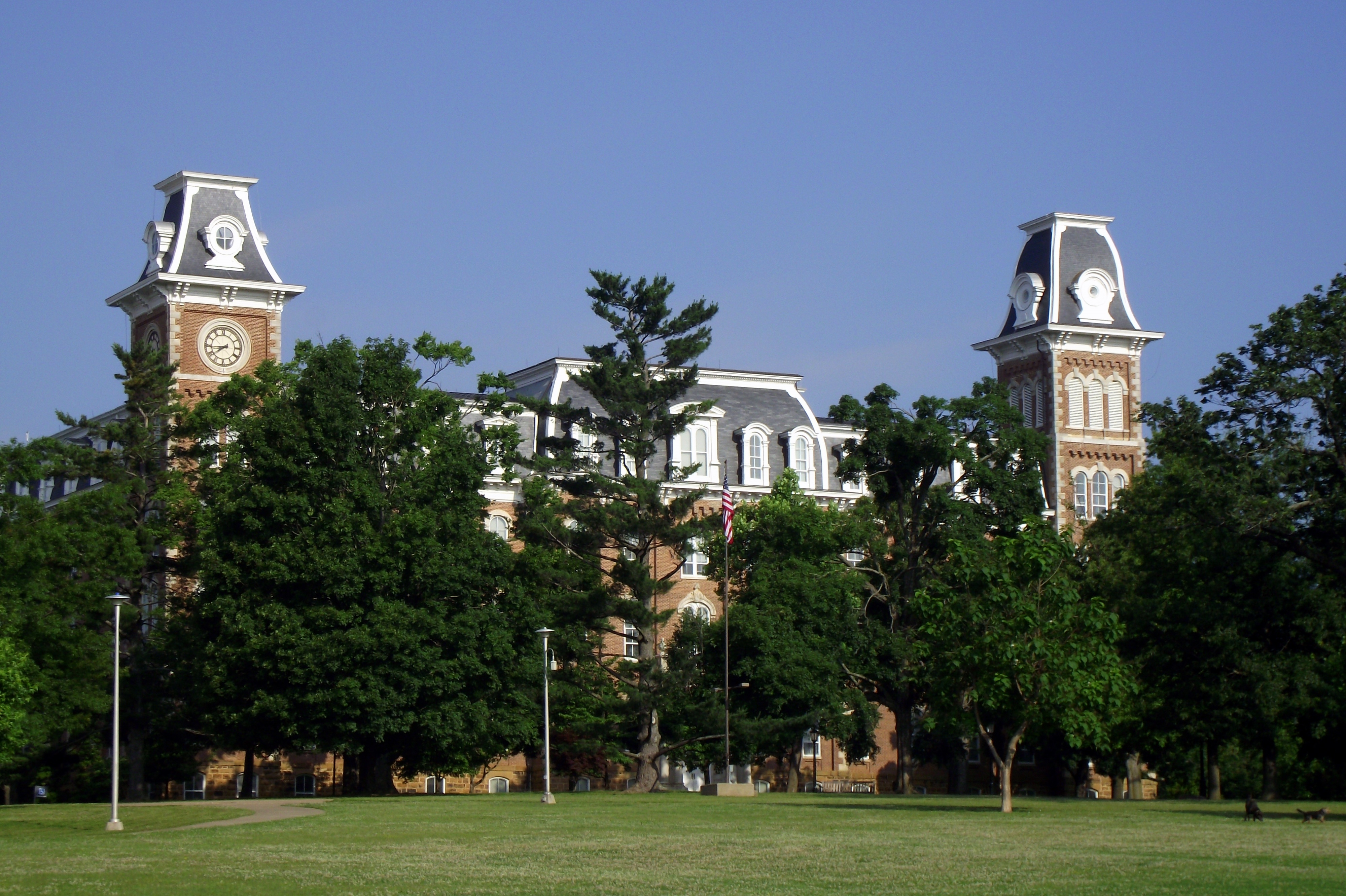 Front of Old Main in Fayetteville, AR